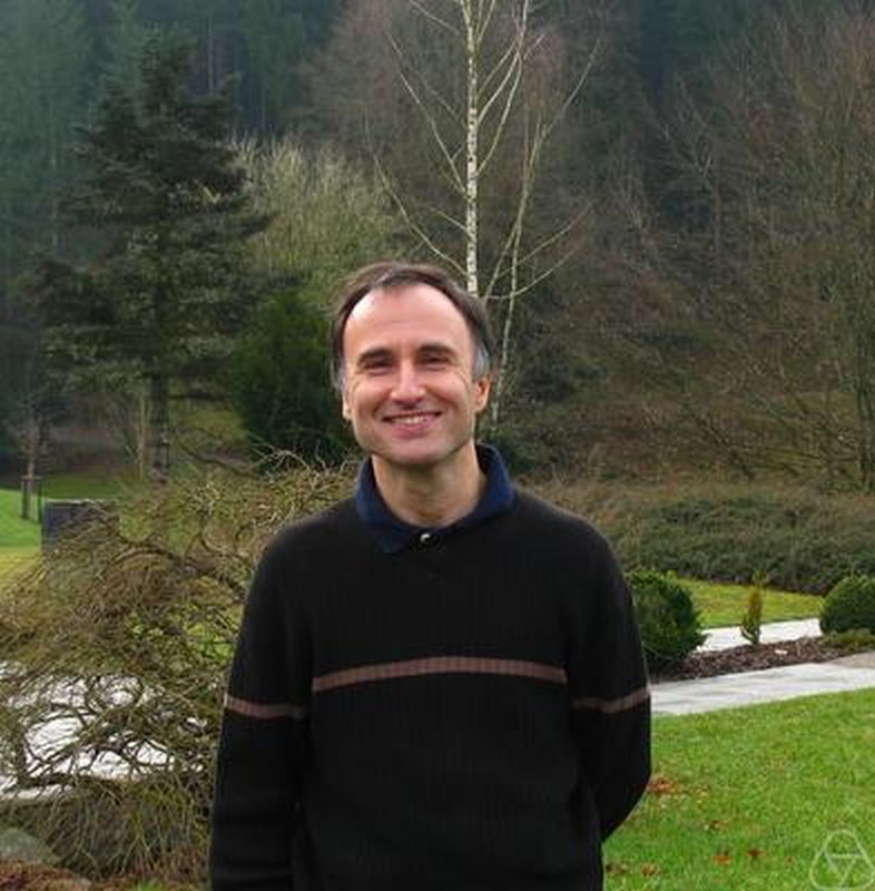 Claudio Landim, Oberwolfach 2012